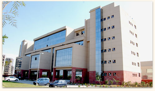 The photo displays front block of National Law University, Delhi building.